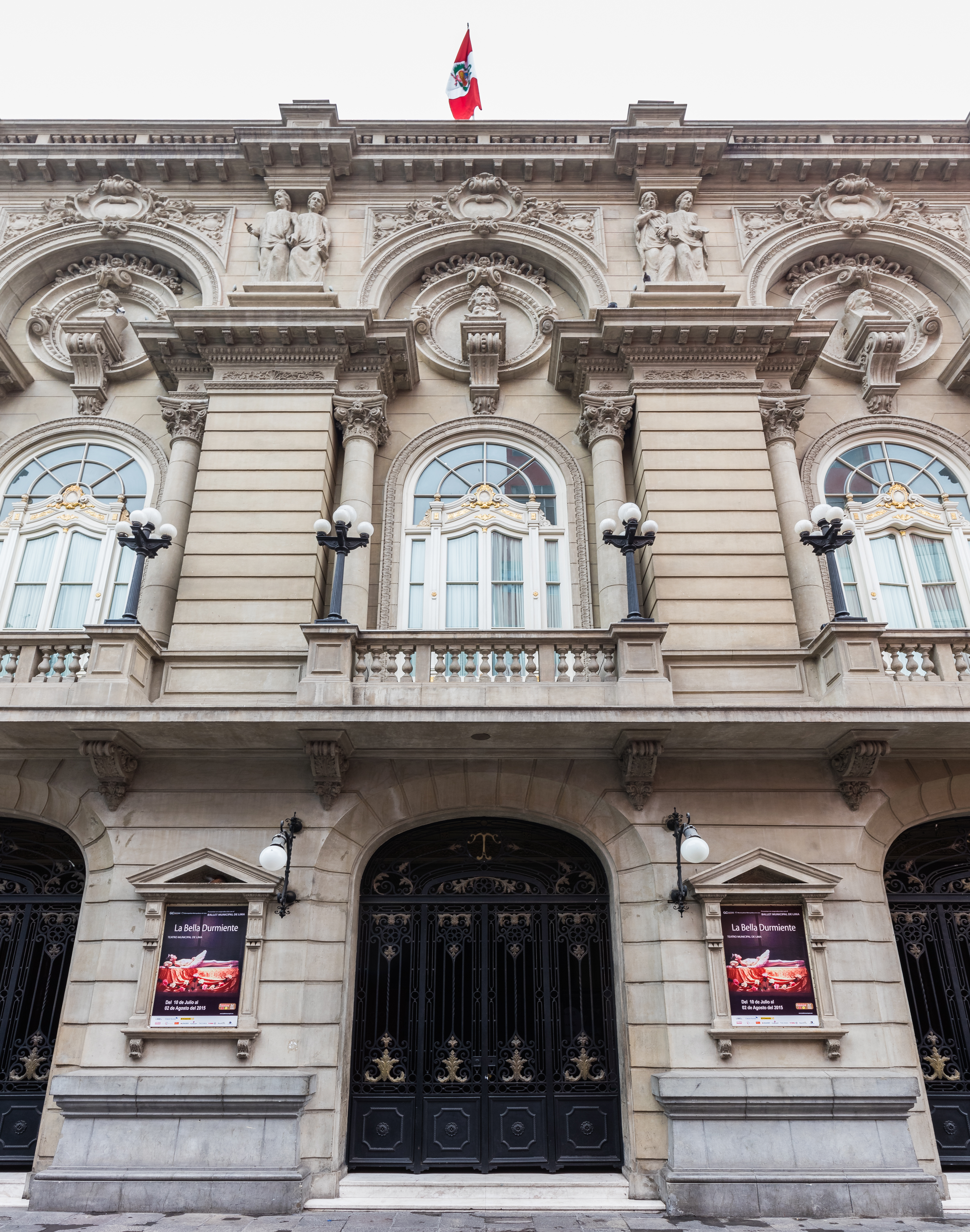 Municipal theater, Lima, Peru